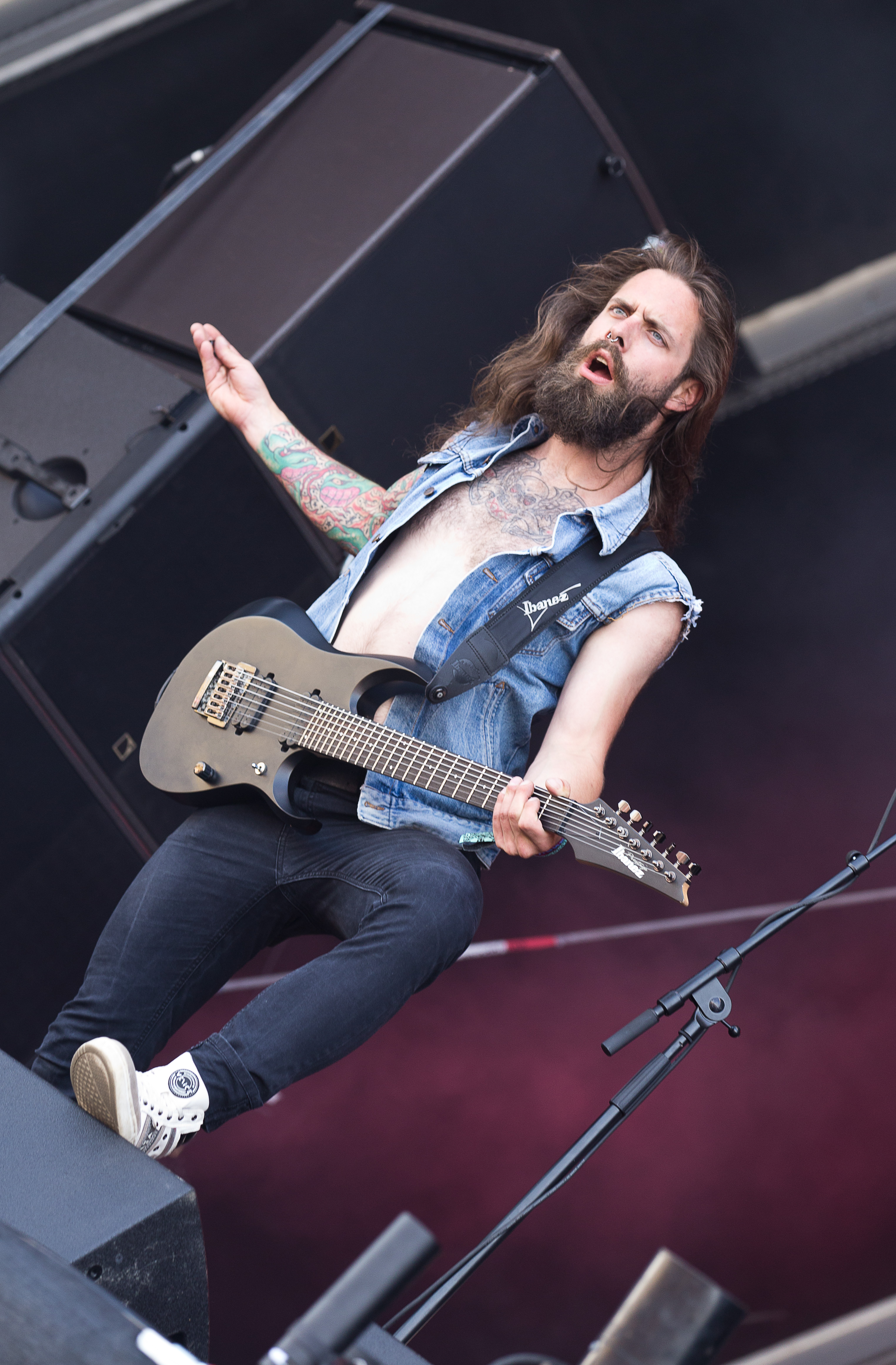 The German melodic death metal band Deadlock at the Rockharz Open Air 2016 in Ballenstedt/Germany.